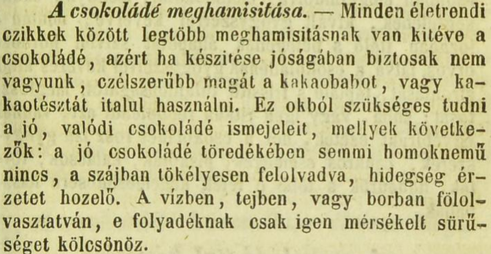 Passage from the work of Rhédey Antal